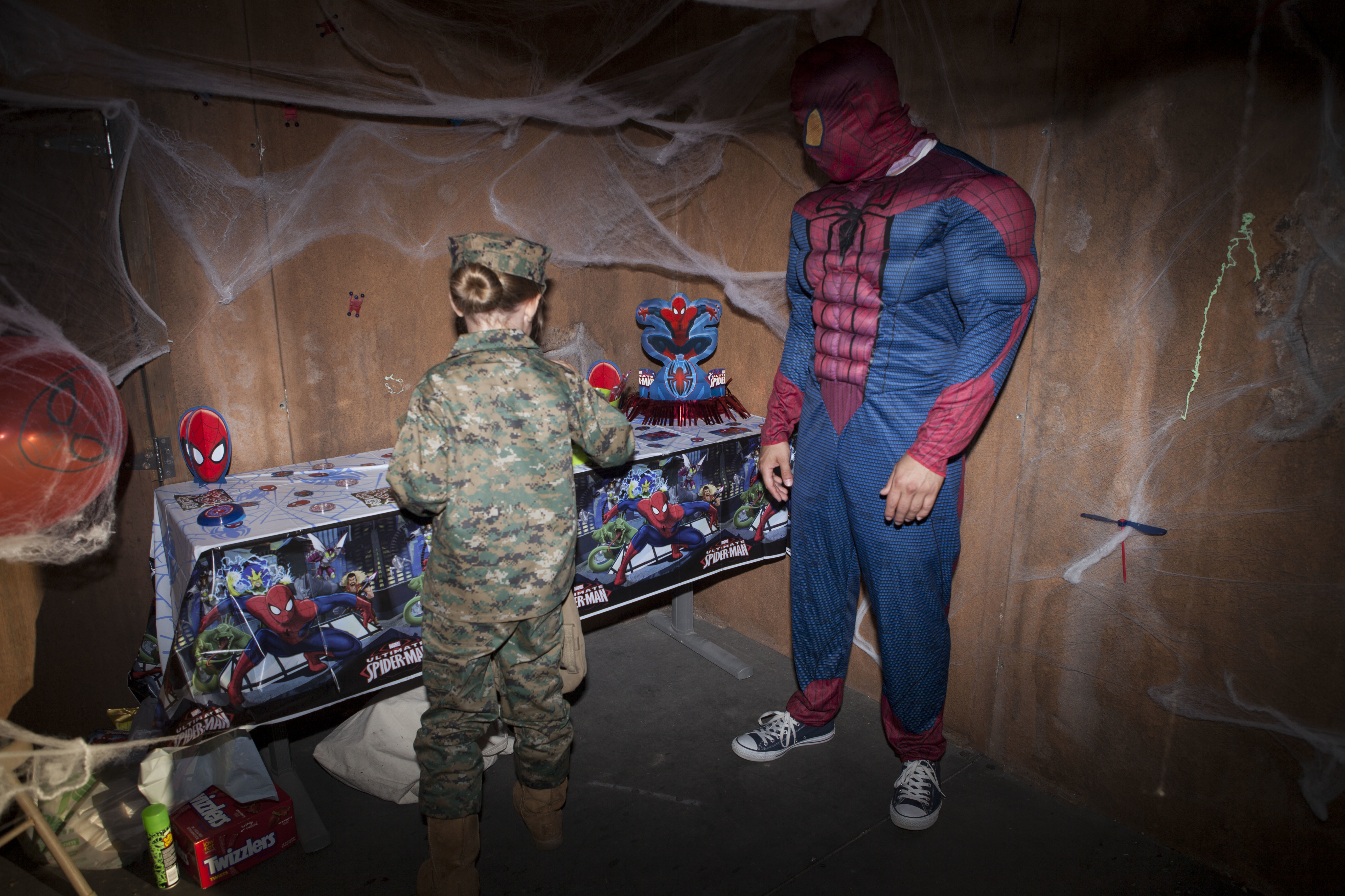 A child dressed in a Halloween costume collects candy from the Headquarters and Support Battalion, School of Infantry-East (SOI-E) decorated hut aboard Camp Geiger, N.C., Oct. 24, 2014. Marines with SOI-E participated in the SOI-E Fall Festival and Haunted Military Operations in Urban Terrain training area (MOUT). (U.S. Marine Corps photo by Sgt. Maricela M. Bryant/Released)